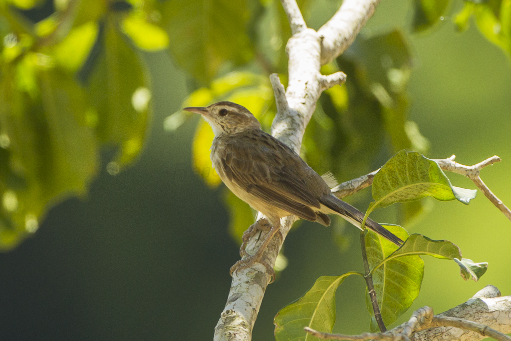 Firewood-gatherer - Sumidoro - Brazil_S4E1359